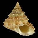 Calliostoma aculeatum aliguayensis Poppe, Tagaro & Dekker, 2006